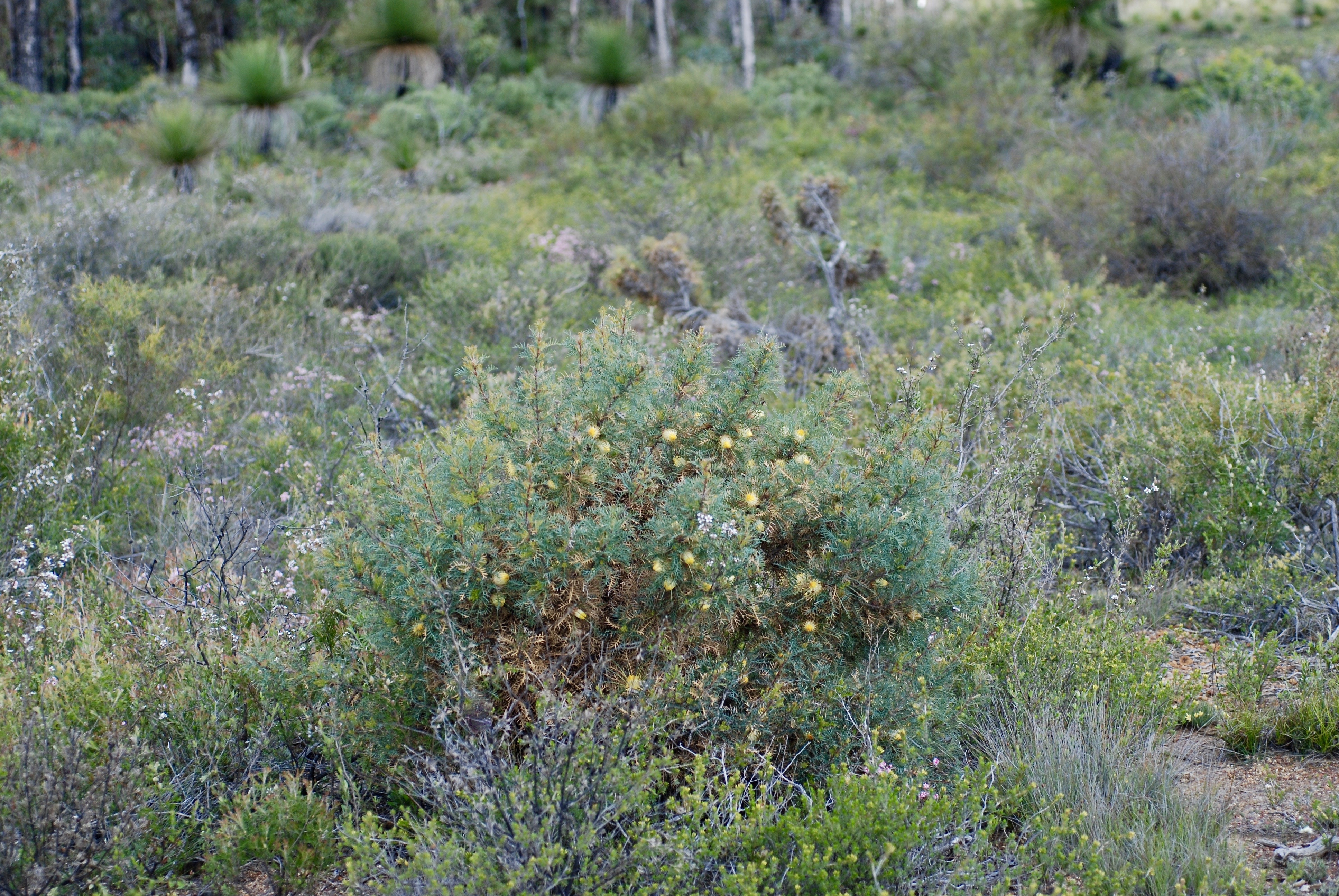 Banksia recurvistylis is a stout shrub growing 1-2 m high by 2-3 m wide with yellow flowers in October and November. During December 2003 we first found a population of this growing in the Wandering Conservation Park. Initially it resembled Banksia meganotia but with further observations other floral characters became evident. During summer 2008 we located a number of new populations on steep hilly landscapes around granite outcrops in the Monadnocks Conservation Park, Wandering. These were brought to the attention of Kevin Thiele, Western Australian Herbarium, who recognised that our plant collections could be a new entity of Banksia. So this shrub was given an informal phrase name: Banksia sp. Wandering (F & J Hort 3181), now a step closer to the naming process. In 2009, Kevin Thiele formally described this as Banksia recurvistylis, a new species for Western Australia. This has a Priority 2 conservation coding and is monitored before and after scheduled burn events. Fred and Jean Photo: Jean